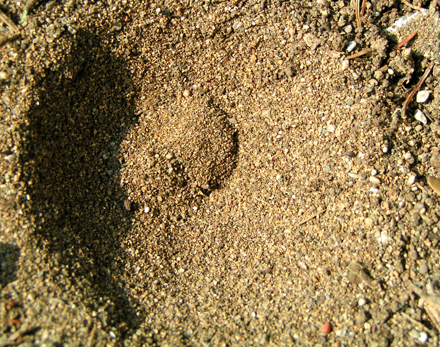 Common Antlion Myrmeleon immaculatus trap-hole, Wheatley, Ontario, Canada